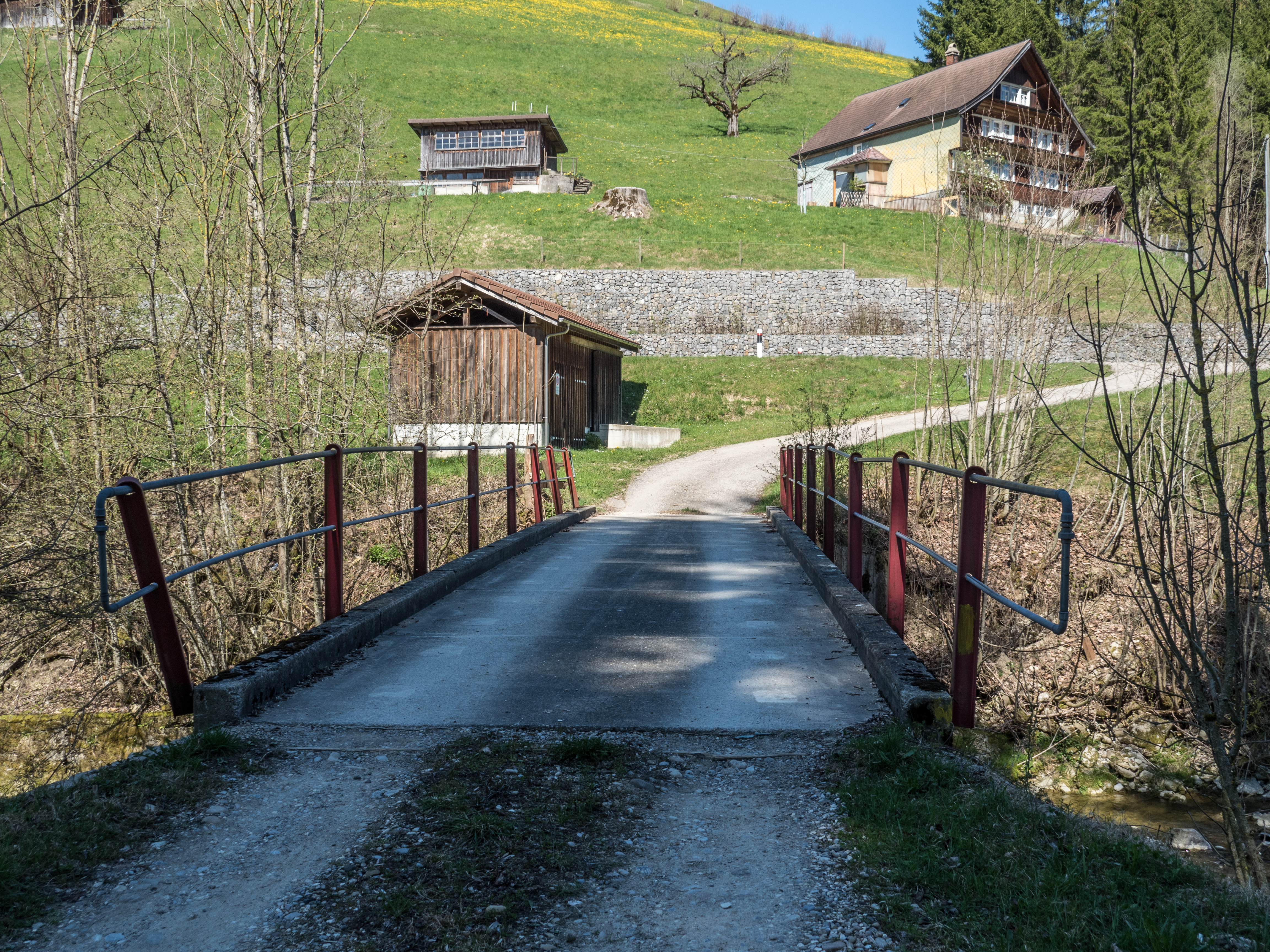 Freudental Road Bridge over the Necker River, Mogelsberg, Canton of St. Gallen, Switzerland